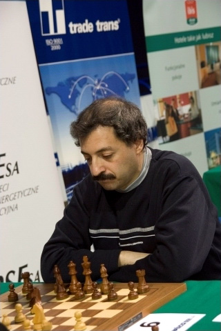 Eduardas Rozentalis, Warsaw 2006